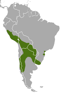 Molina's Hog-nosed Skunk (Conepatus chinga) range, with national borders added